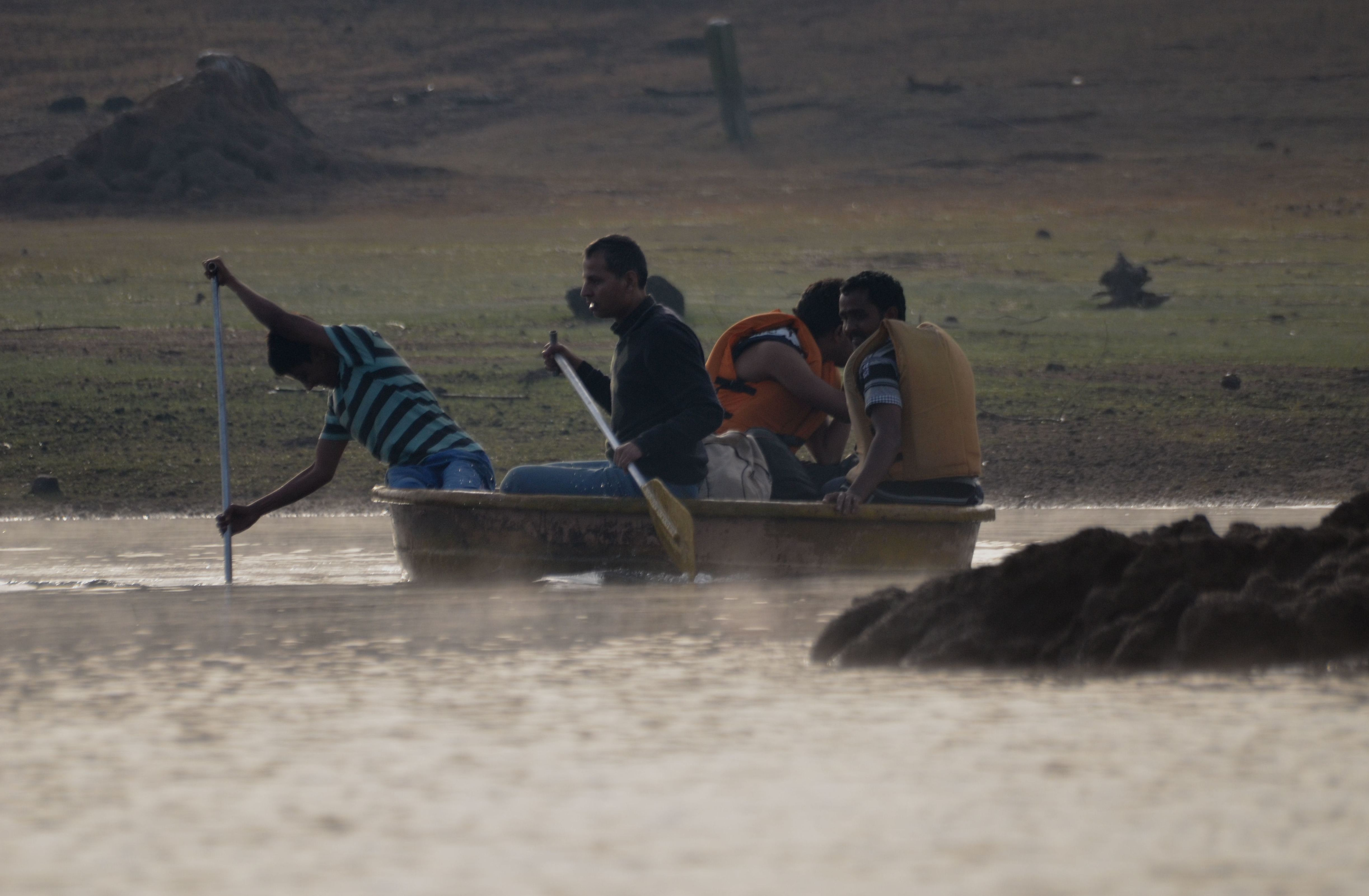 These pics were taken at Honnemaradu